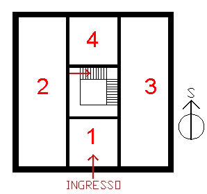 Plan of ground floor of Verres castle in Aosta Valley